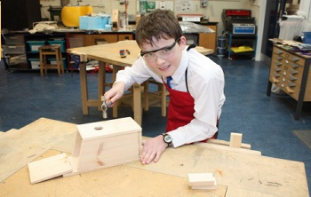 An apprentice making a birdbox